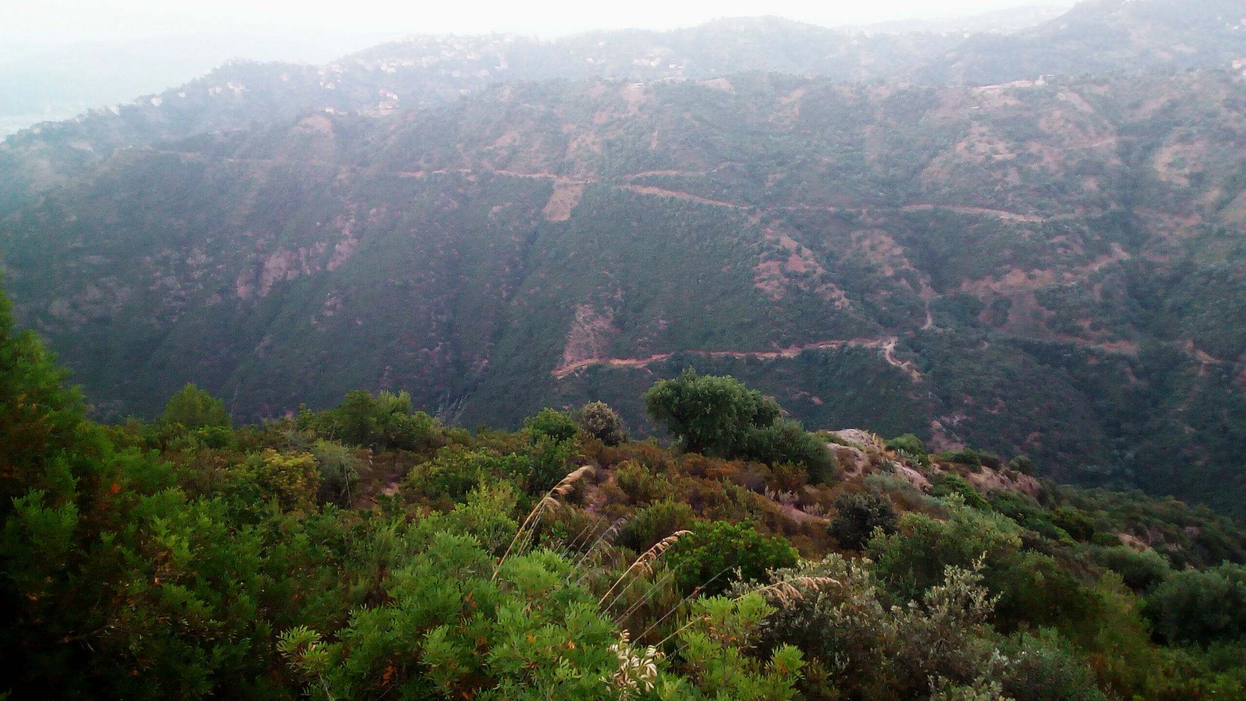 Green space of Amejjodh forest in mezdatta Imezdaten